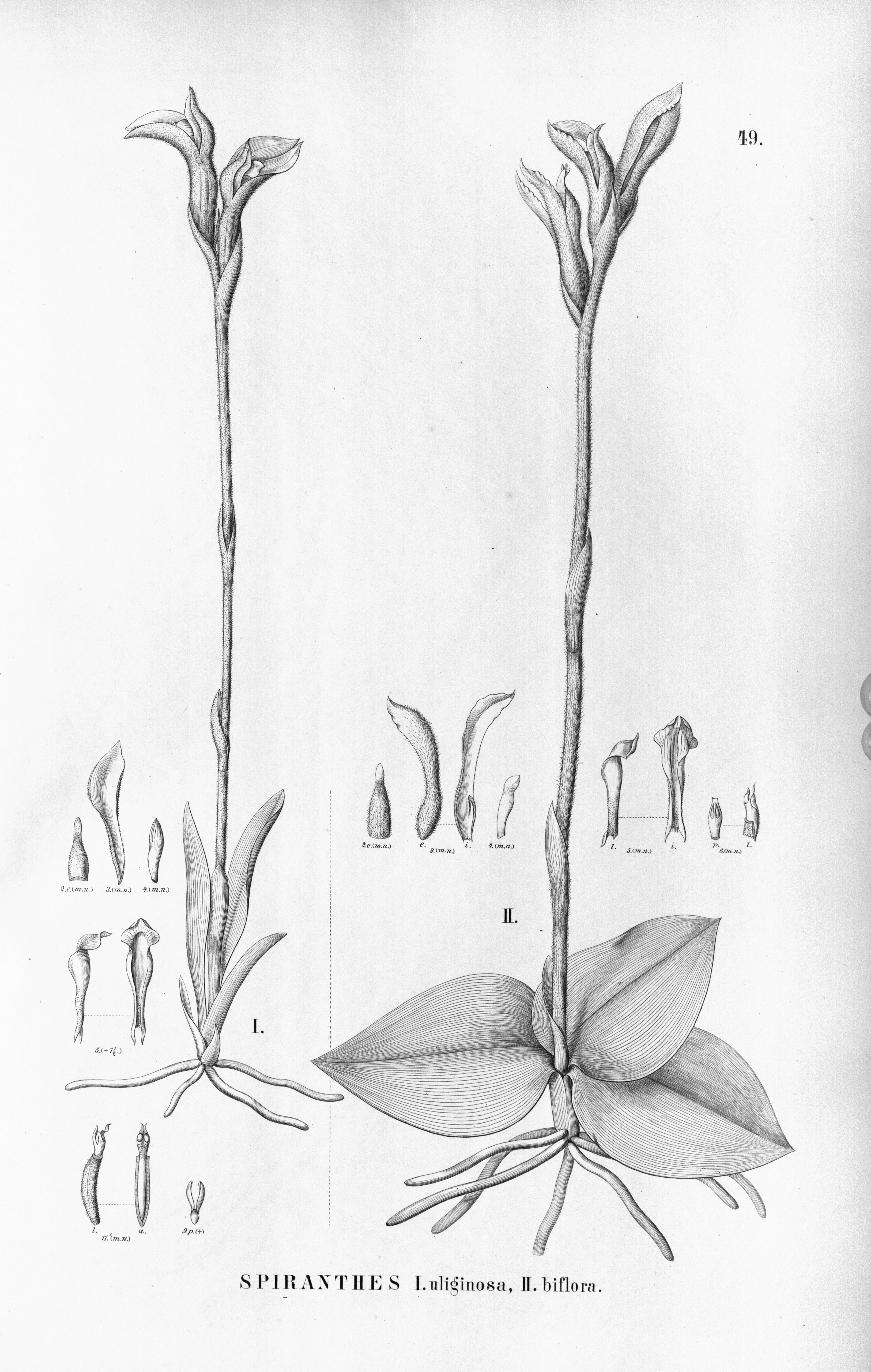 Illustration of: I. Sarcoglottis uliginosa (as syn. Spiranthes uliginosa) II. Sarcoglottis biflora (as syn. Spiranthes biflora)